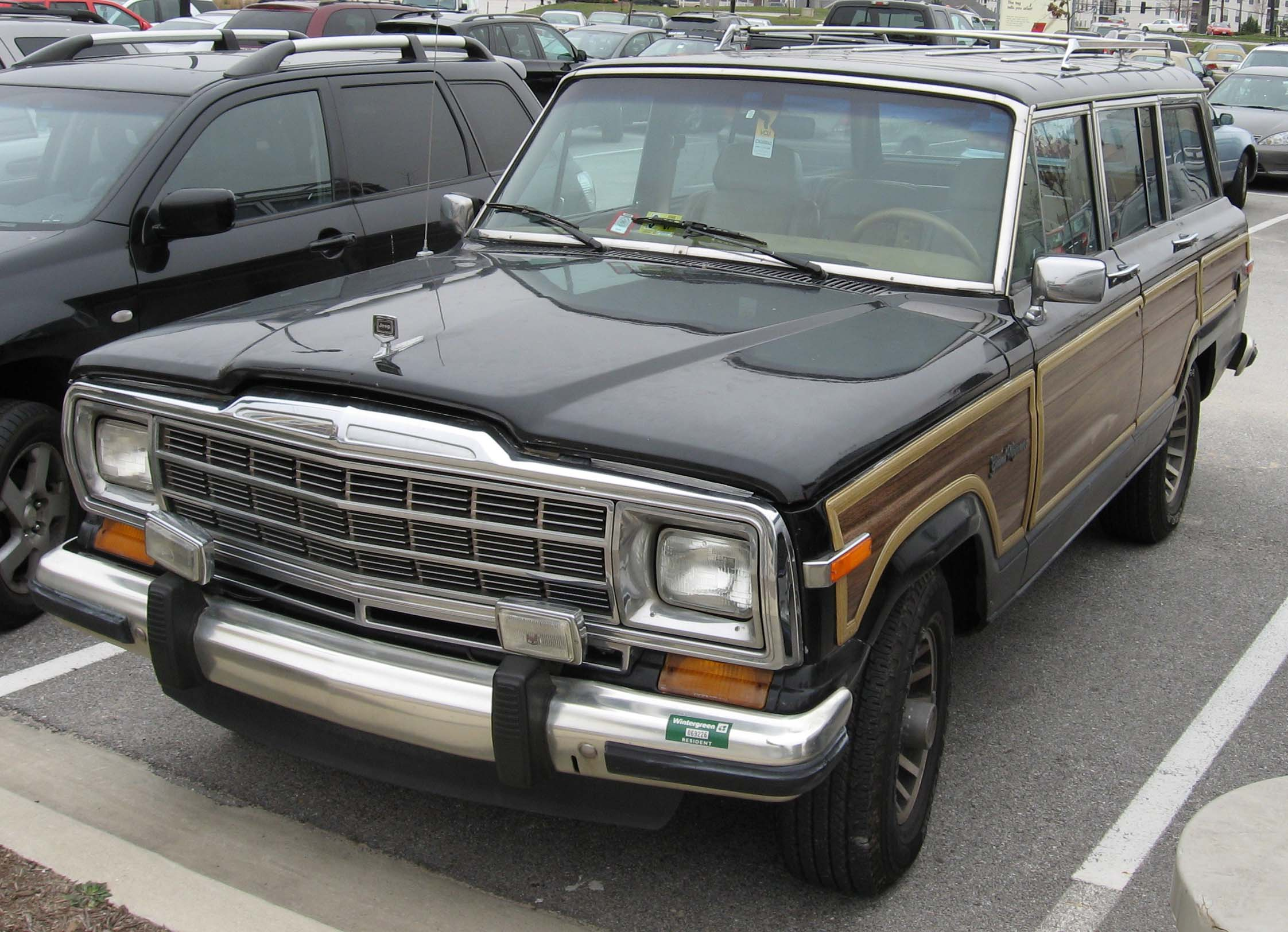 Jeep Grand Wagoneer photographed in USA.